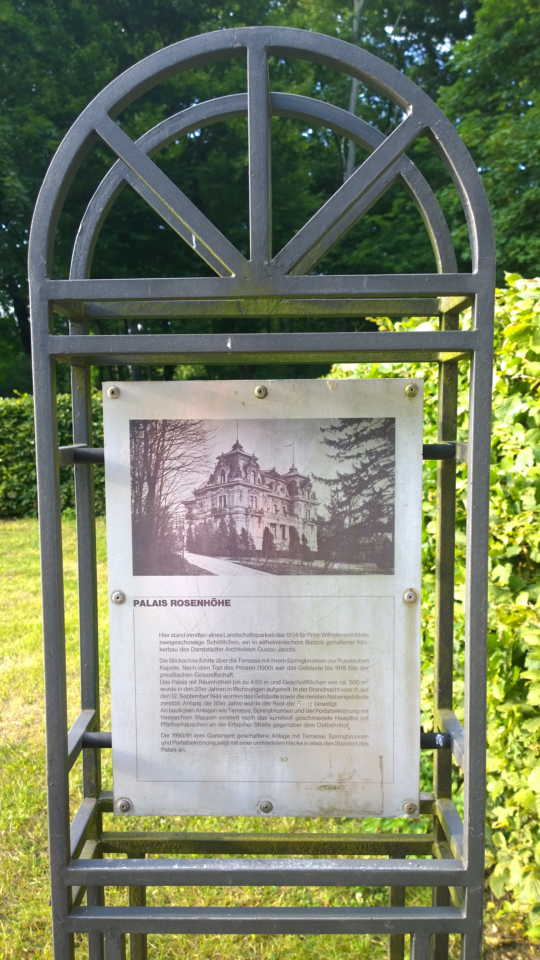 Visitor's panel at the east entrance from the Thießweg street